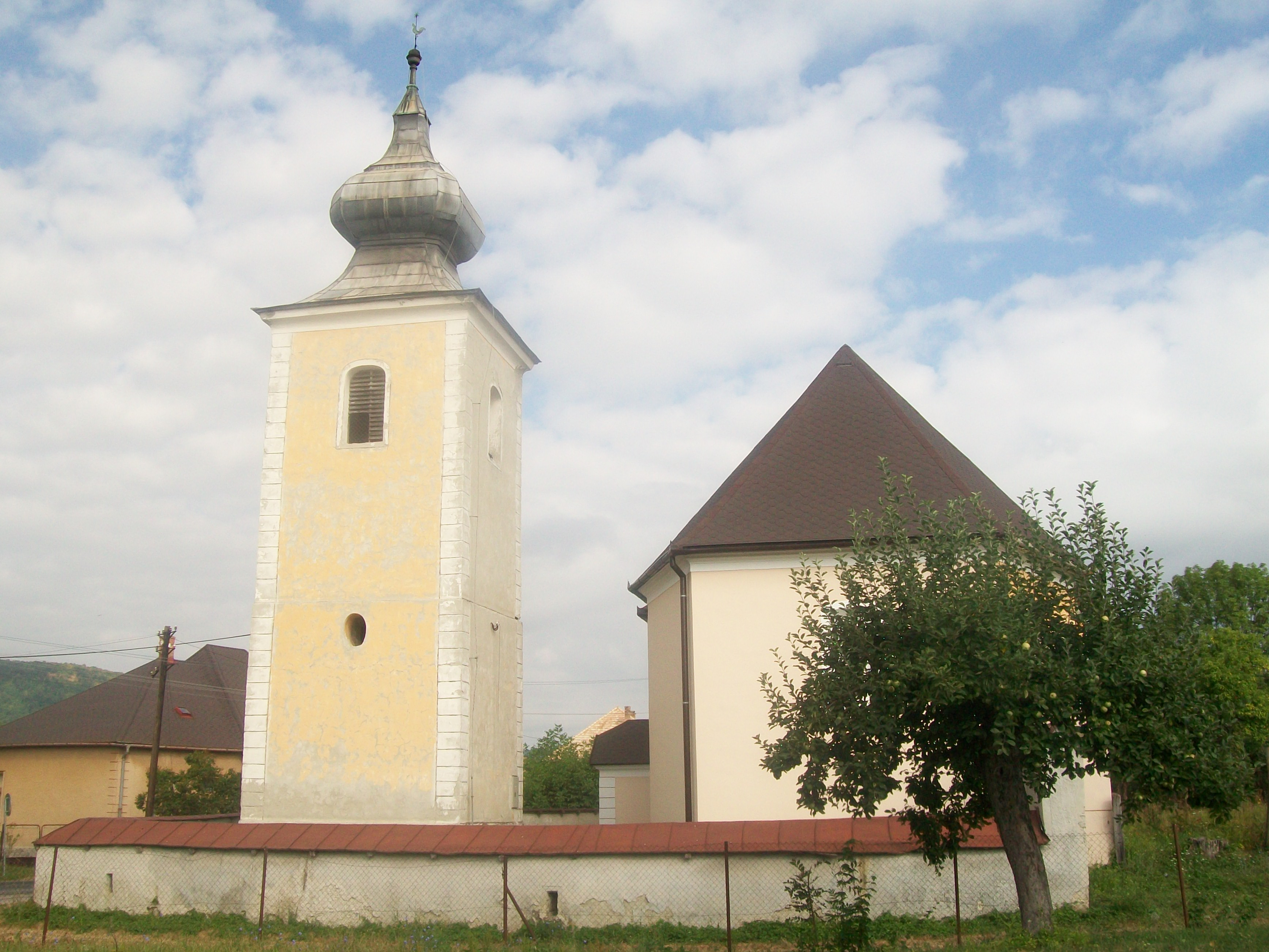 Evangelical Church in Dolné Strháre, built in 1756 Object location48° 14′ 55.43″ N, 19° 23′ 19.72″ E